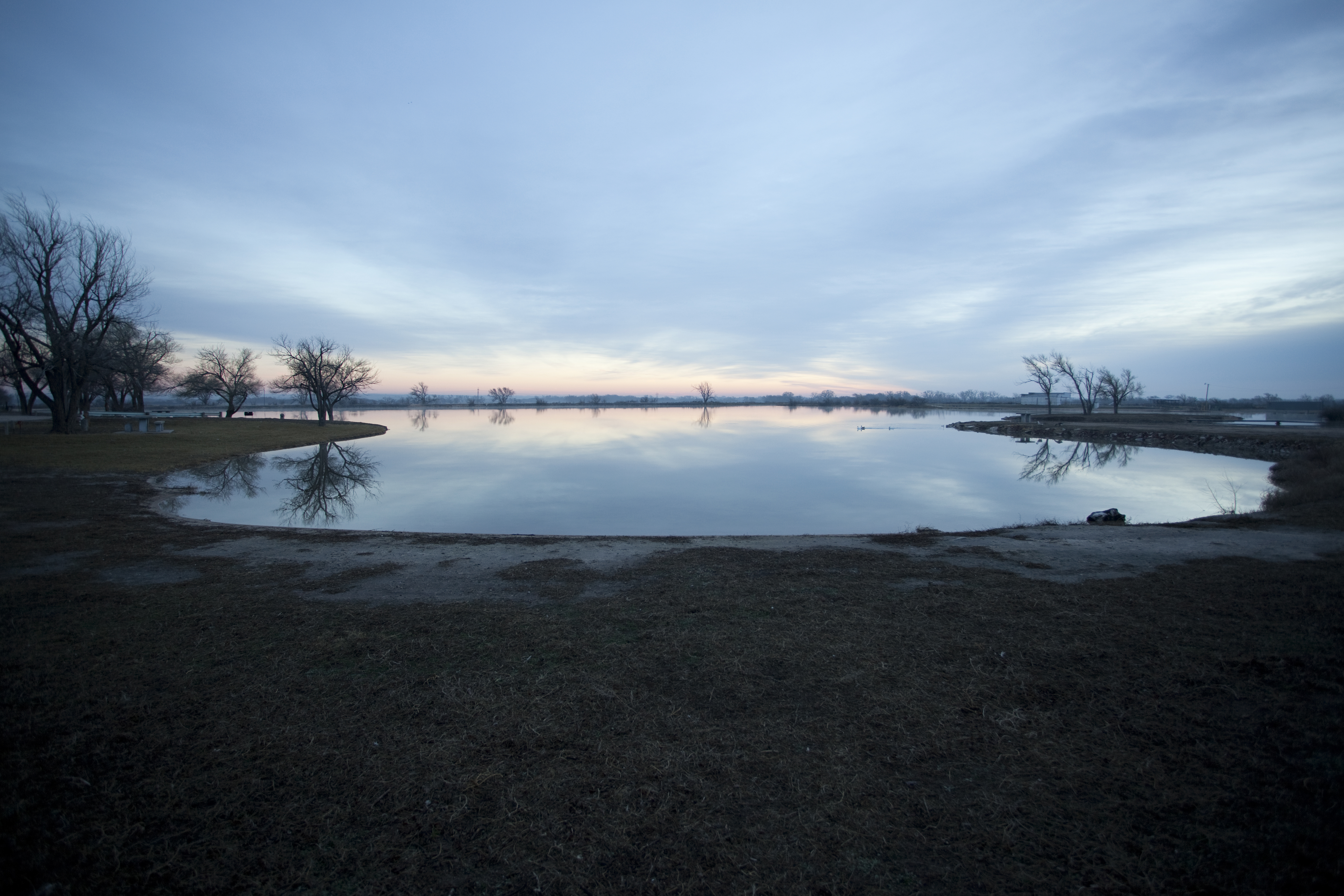 A clear, spring-fed lake at Artesian Beach Park in Gage, Oklahoma.